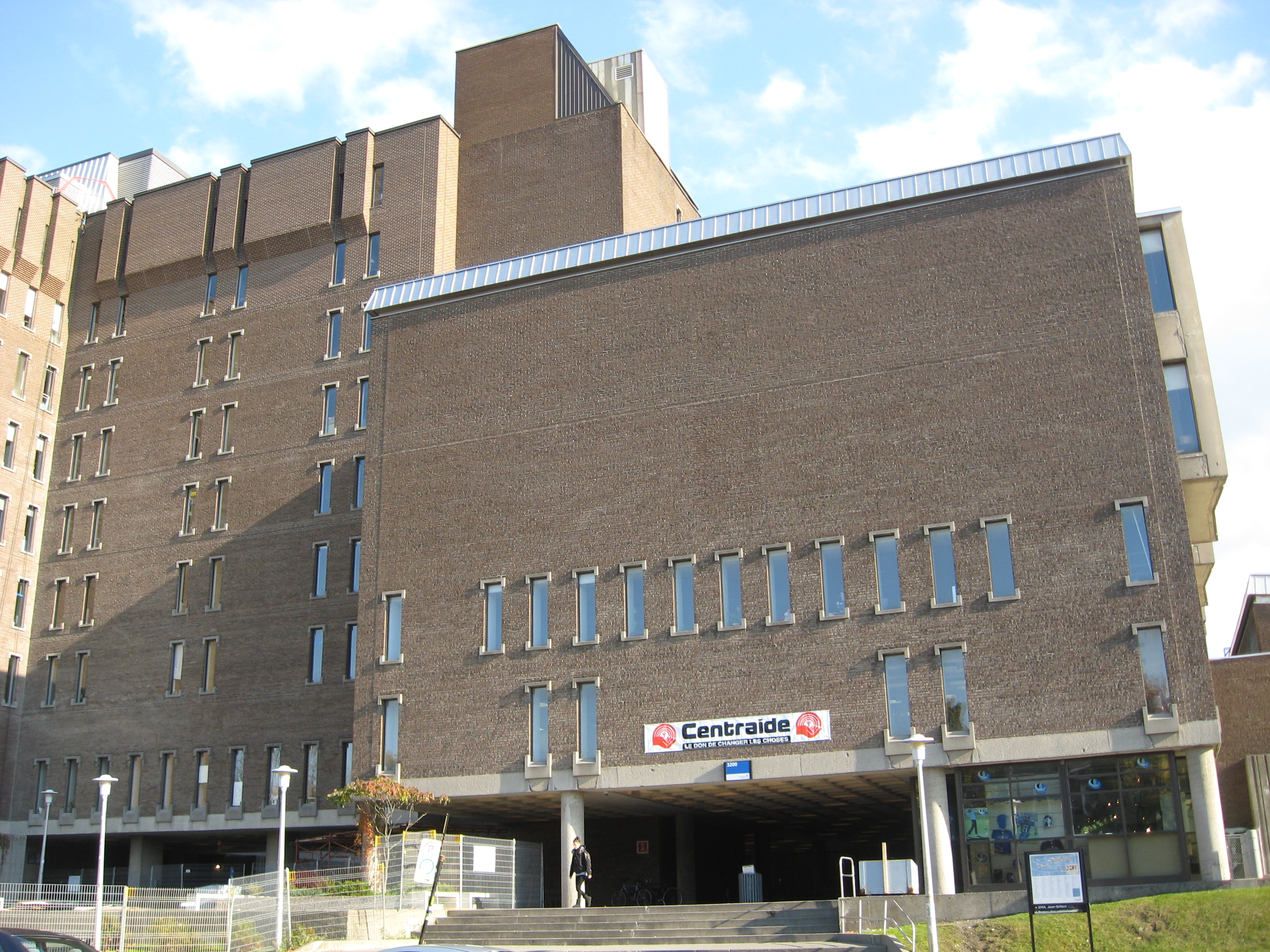 3200 Jean-Brillant pavilion, Université de Montréal